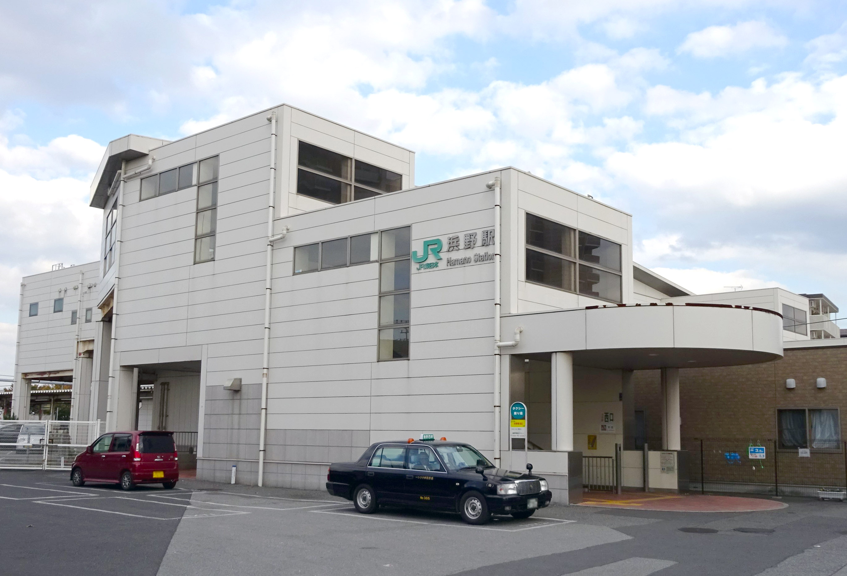 Ticket barriers of Hamano Station